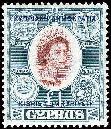 Stamp of Cyprus, Elizabeth II, overprinted by greek and turkish languages for independence, 1960, 1 pound.